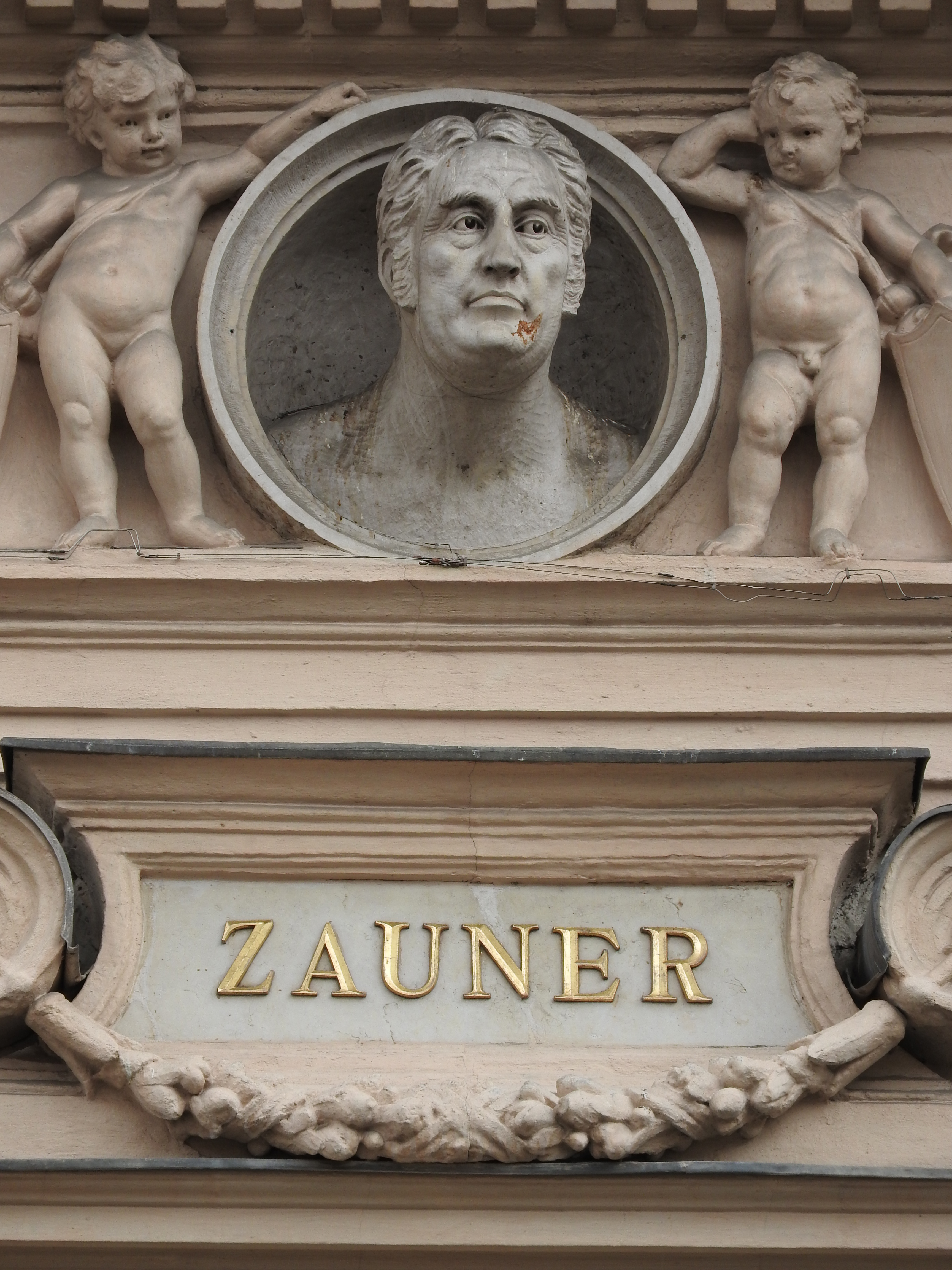 Portrait of Franz Anton von Zauner at the front of the Landesmuseum Ferdinandeum in Innsbruck, Austria